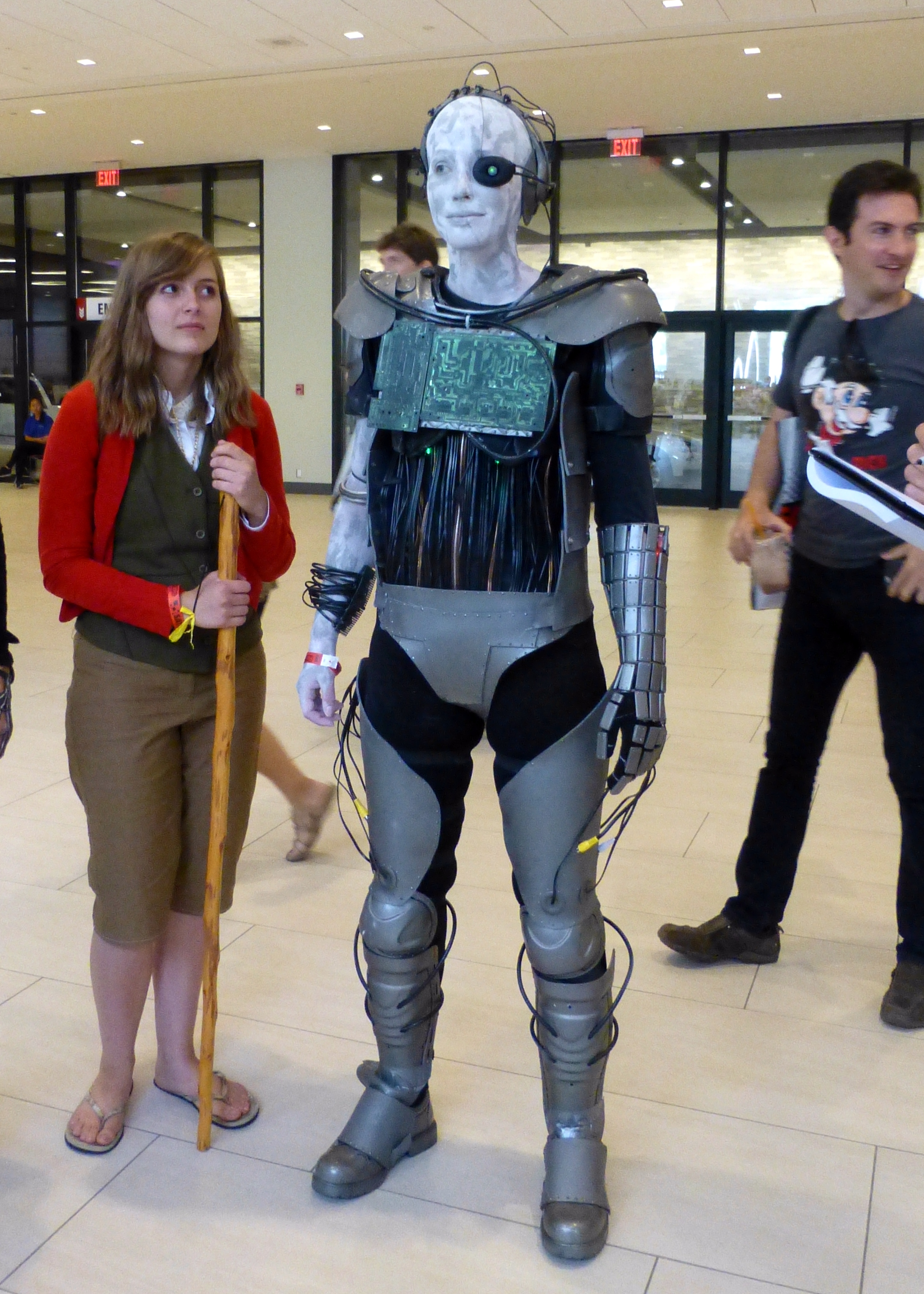 Borg Queen Cosplay at Fan Expo Canada in 2015.